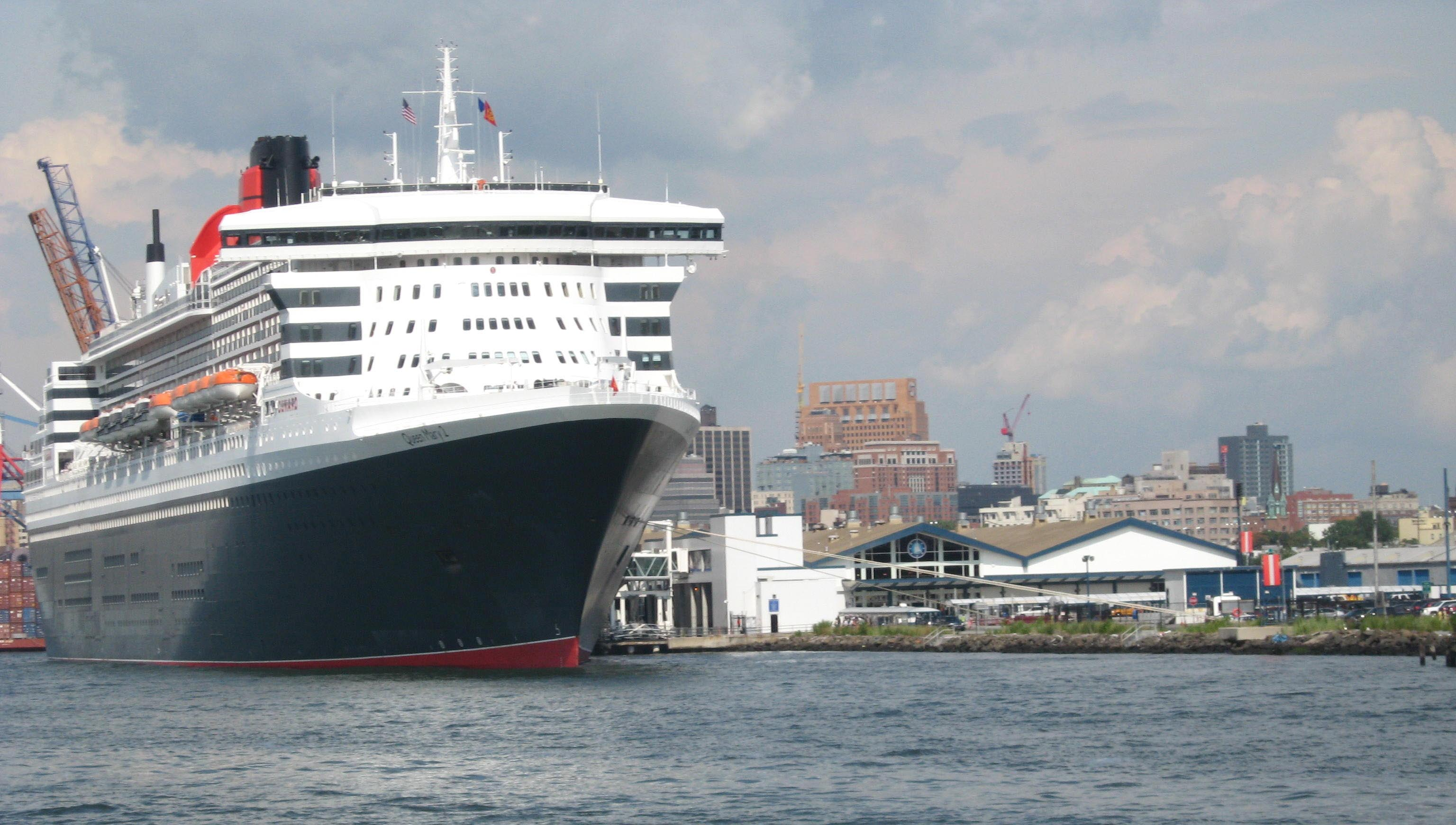 Looking northeast at Brooklyn Cruise Terminal with QM2 in port, from a ferry rounding Red Hook, Brooklyn on a sunny afternoon